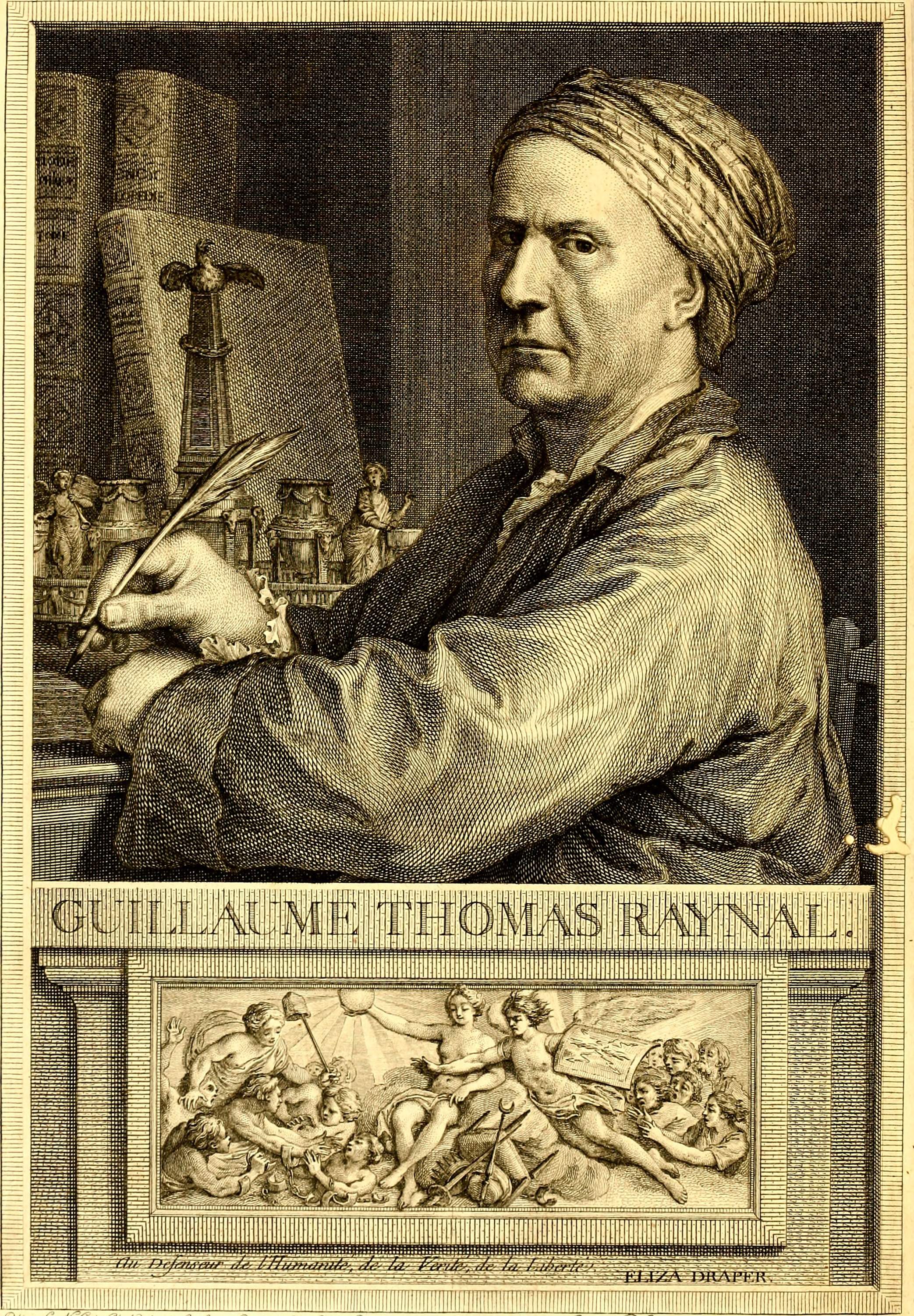 Guillaume-Thomas Raynal Title: Histoire philosophique et politique des établissemens et du commerce des Européens dans les deux Indes Year: 1780 (1780s) Authors: Raynal, abbé, 1713-1796 Cochin, Charles Nicolas, 1715-1790 Moreau, Jean Michel, 1741-1814 Bonne, Rigobert, 1727-1794 Subjects: Colonization Commerce Publisher: Genève : Jean-Leonard Pellet Text Appearing Before Image: ' Text Appearing After Image: £)jtr,^^C^^C.^,a:. llllllllillMlifllWIlMlMIIflM HISTOIRE PHILOSOPHIQUE ET POLITIQUE Des Établissemens et du CommerceDES Européens dans les deux Indes. Par GUILLAUME-THOMAS RAVNAL. TOME PREMIER,histoirephilosop01inrayn